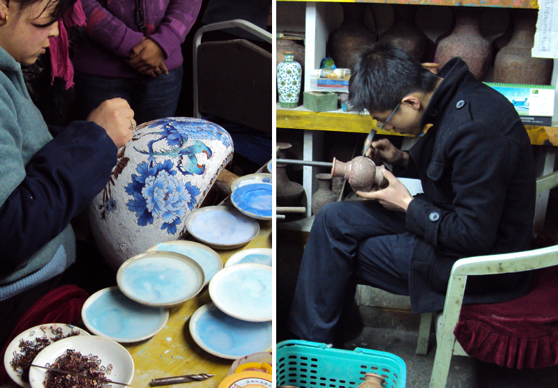 Vase cloisonné of China